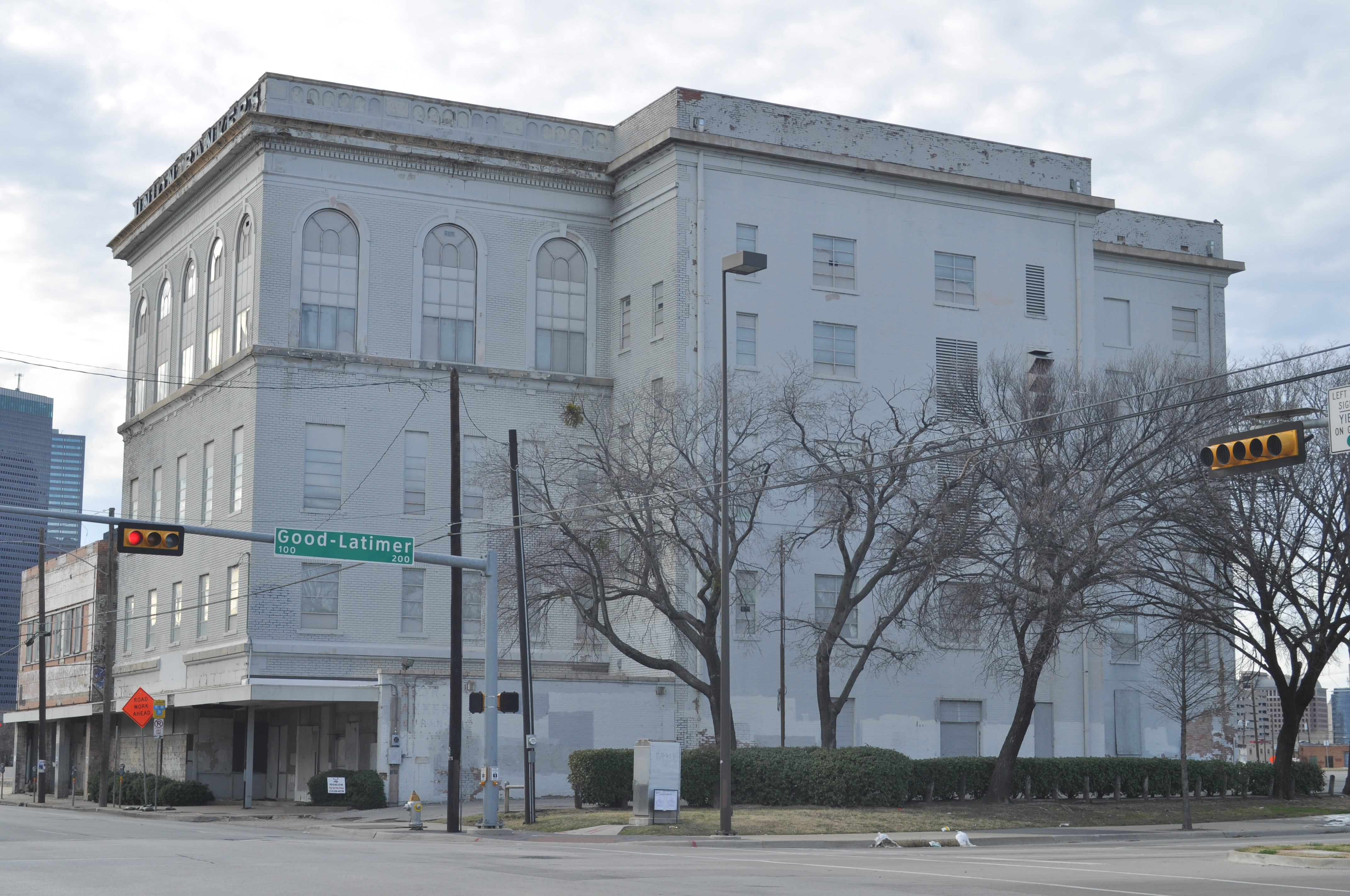 The Union Bankers Building, originally Knights of Pythias Temple, 2551 Elm Street Street, Deep Ellum, Dallas, Texas, U.S.A. Designed by William Sidney Pittman, Dallas's first African-American architect.